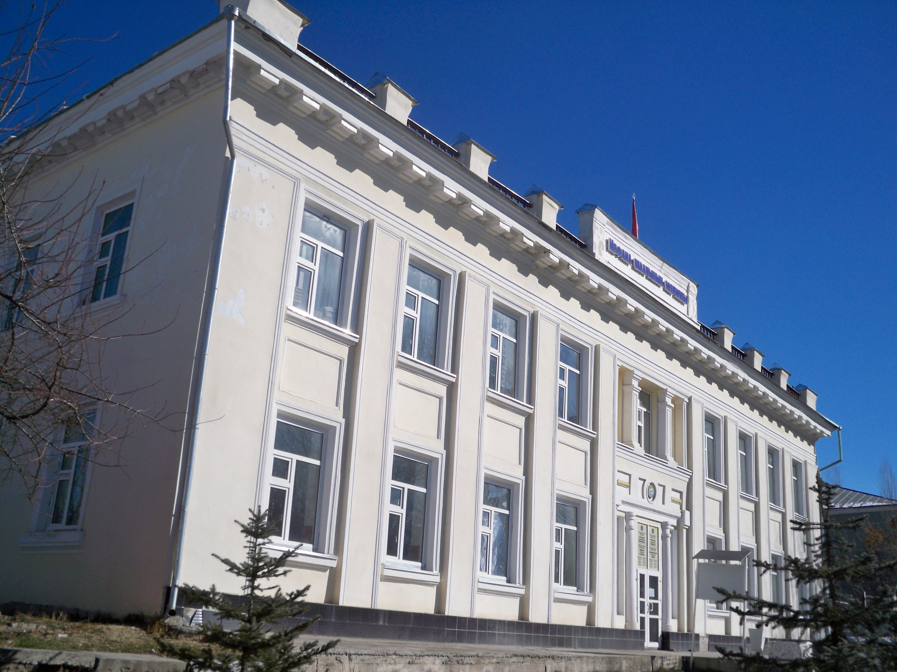 The building of the Mayor's Office. Isfana, Kyrgyzstan.